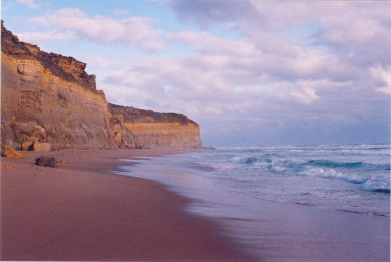 The Gibson Steps looking east. A scan of a photo taken by me in March 2004.